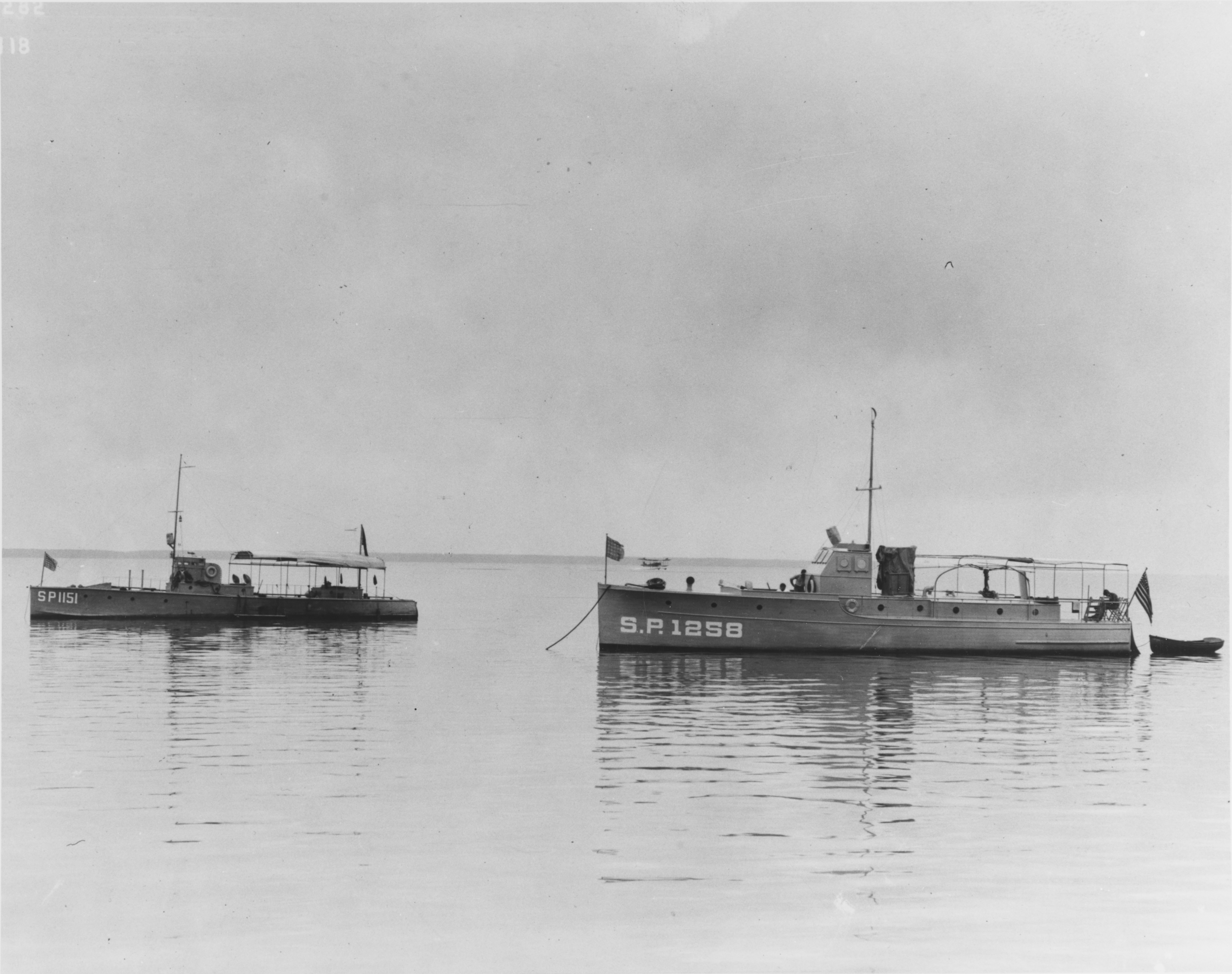 The United States Navy patrol vessels USS Russ (SP-1151) and USS Velocipede (SP-1258) at Miami, Florida.